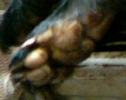 Rear paws a badger (Meles meles)